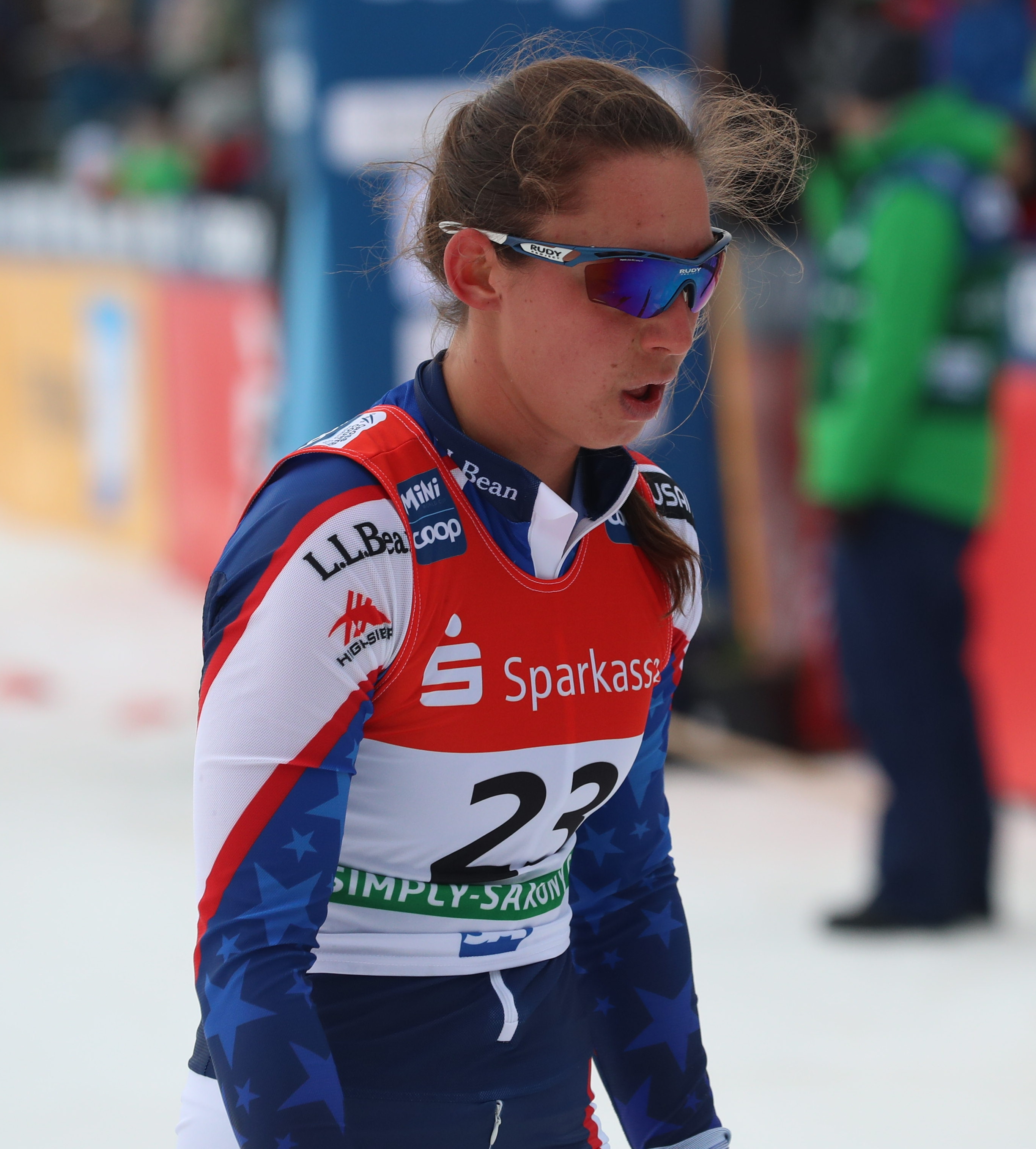 Women's Quarterfinal, Heat 1, at the FIS Cross-Country World Cup Dresden 2019 (1.6 km Free Sprint)